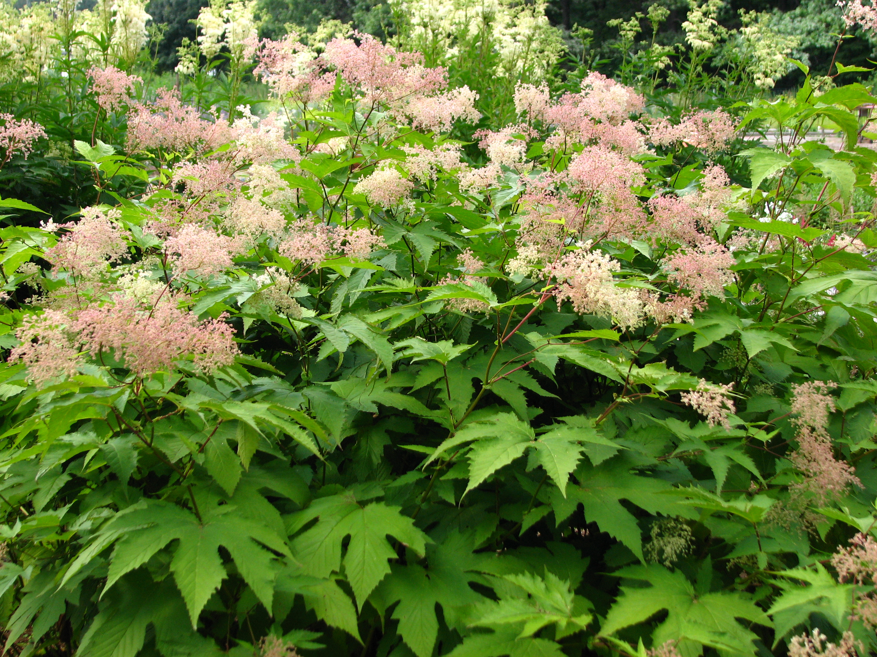 Filipendula camtschatica. From the collection of the Main Botanical Garden of Academy of Sciences in Moscow (perennials plot).